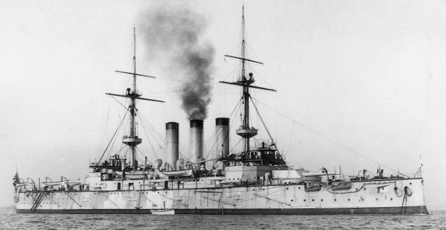 Picture of Japanese battleship Shikishima. Taken before 1946, according to Japanese copyright law is considered Public Domain.